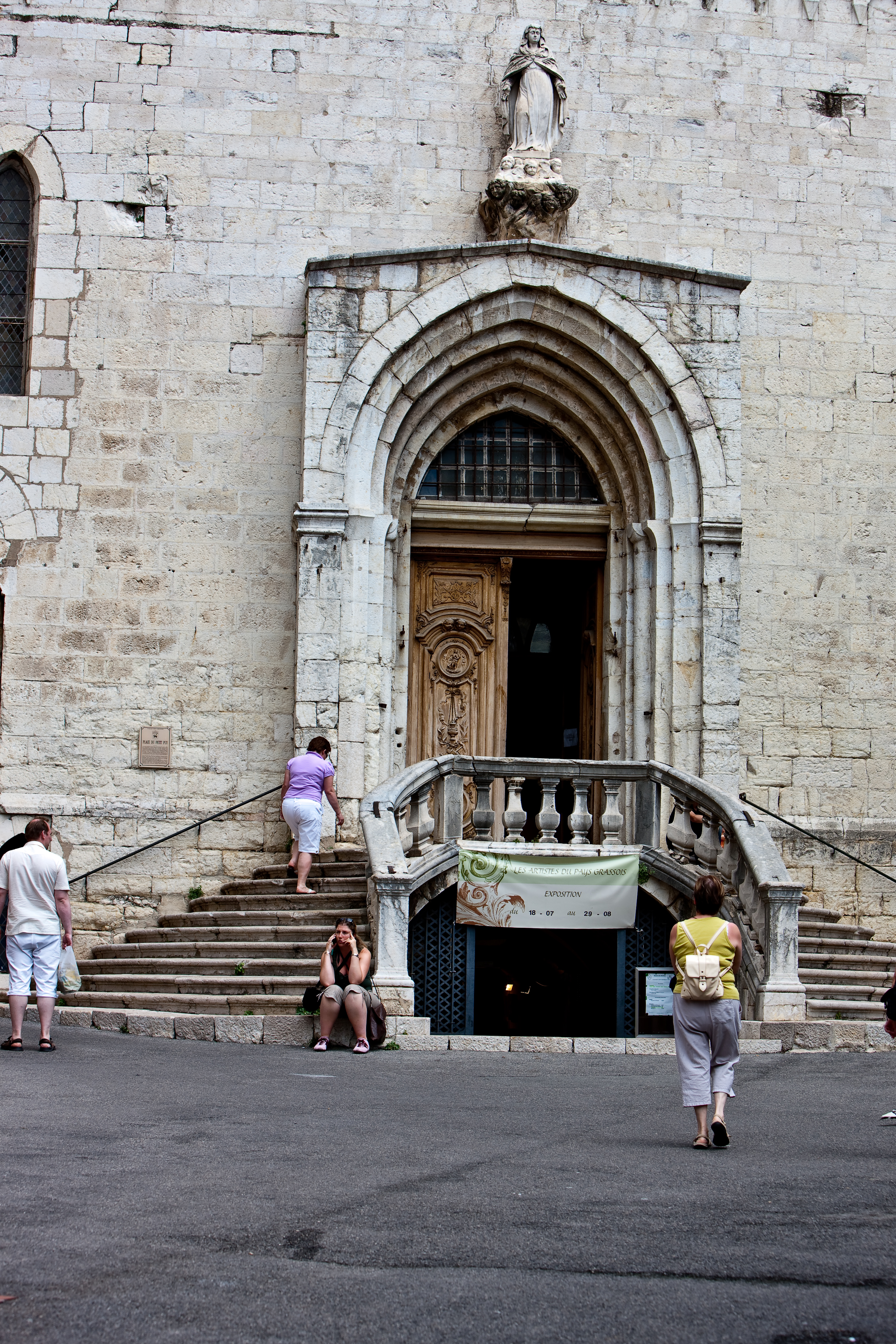 Input in a cathedral